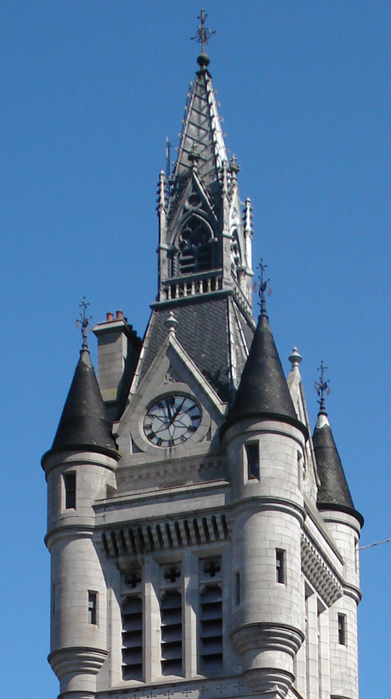 A prominent landmark in Union Street, this tower, in a Flemish Gothic style in recognition of trade links between Aberdeen and Flanders, stands on the corner of Broad Street and Castle Street. photo courtesy Jane Cartney